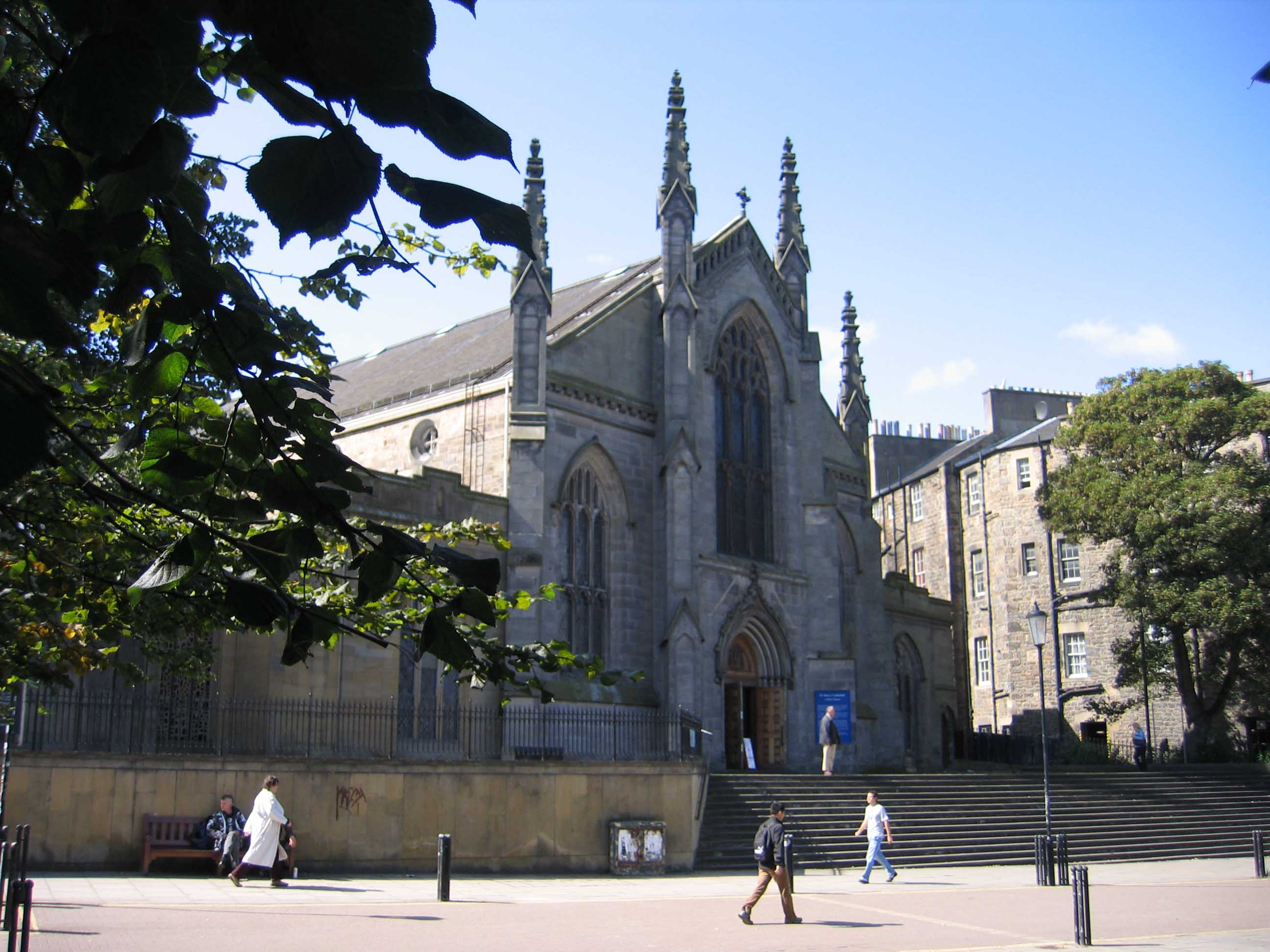 St Mary's Metropolitan Cathedral Edinburgh